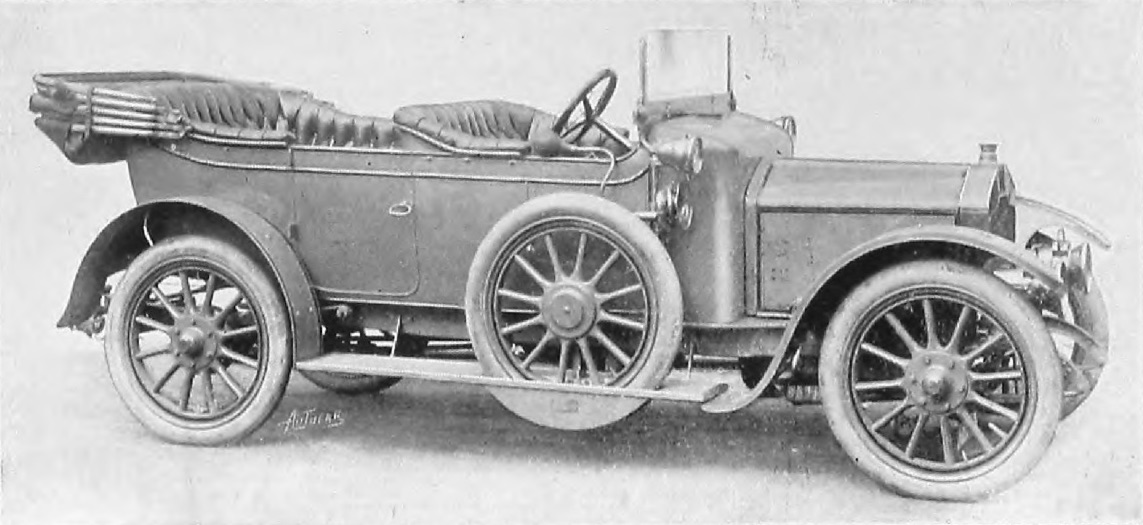 1911 Rover 12hp 4-seater tourer